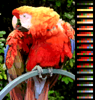 Sample image of simulated Apple IIgs 16x16-color screen